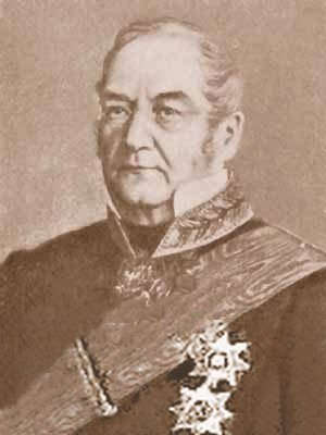 Kniazhevitsch Alexandr Maximovitsch (1792-1872) - ministr of Russia (1858-1862)